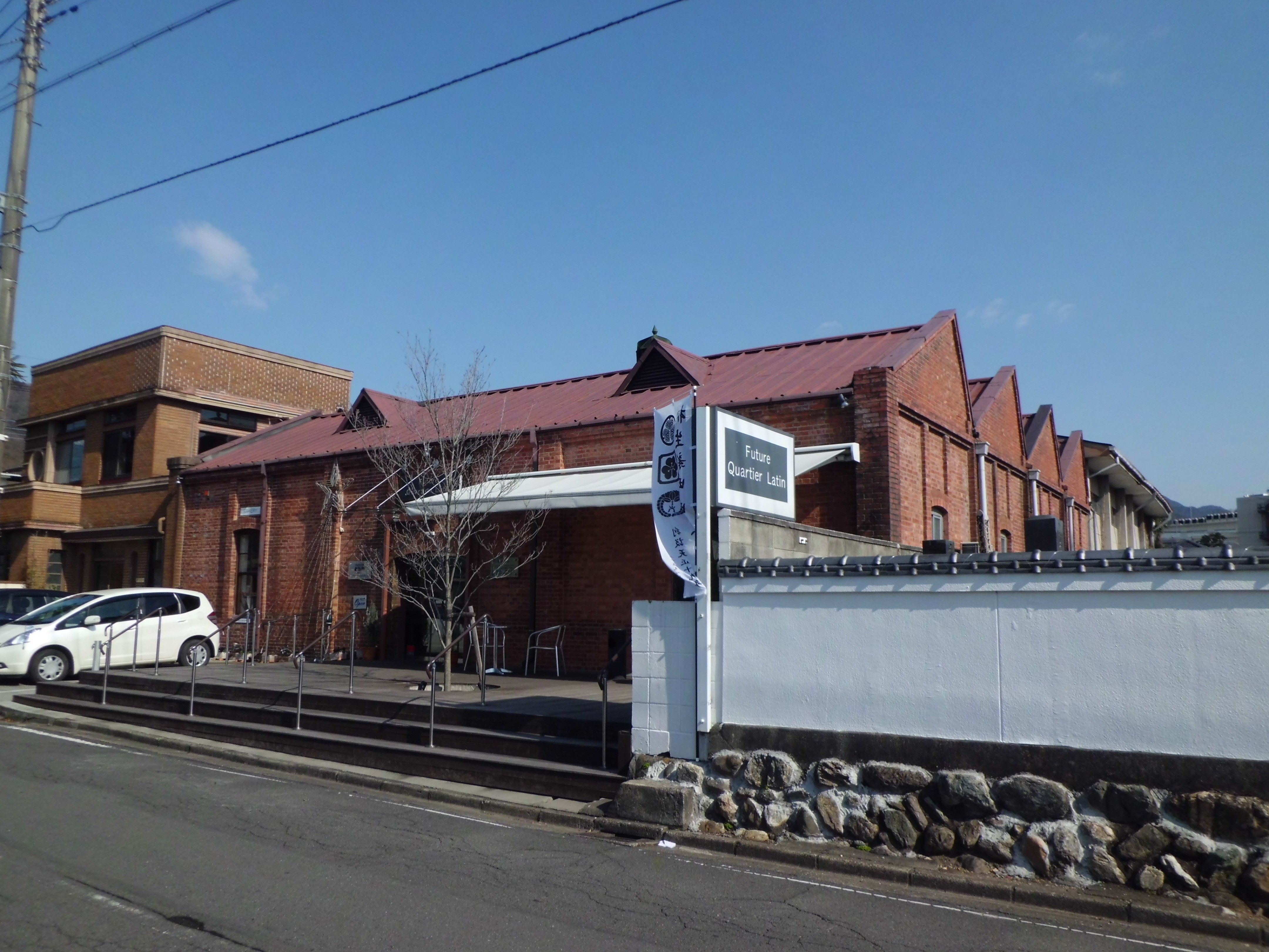 Bakery and Cafe Renga in Kiryu city, Gunma prefecture, Japan. Former factory of Kanaya Lace Industry.